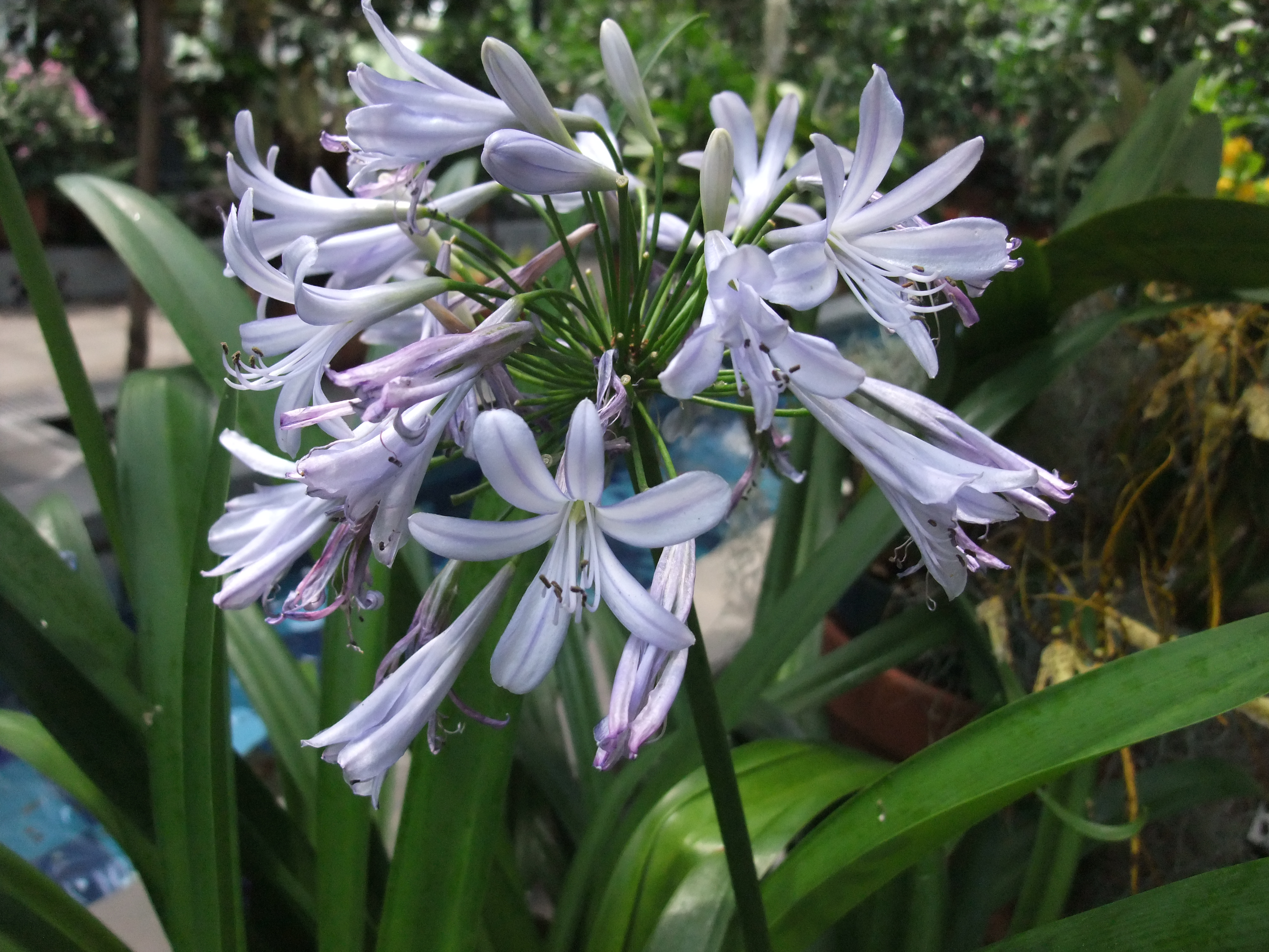 A photograph of the flowers of Agapanthus praecox ssp. orientalis.